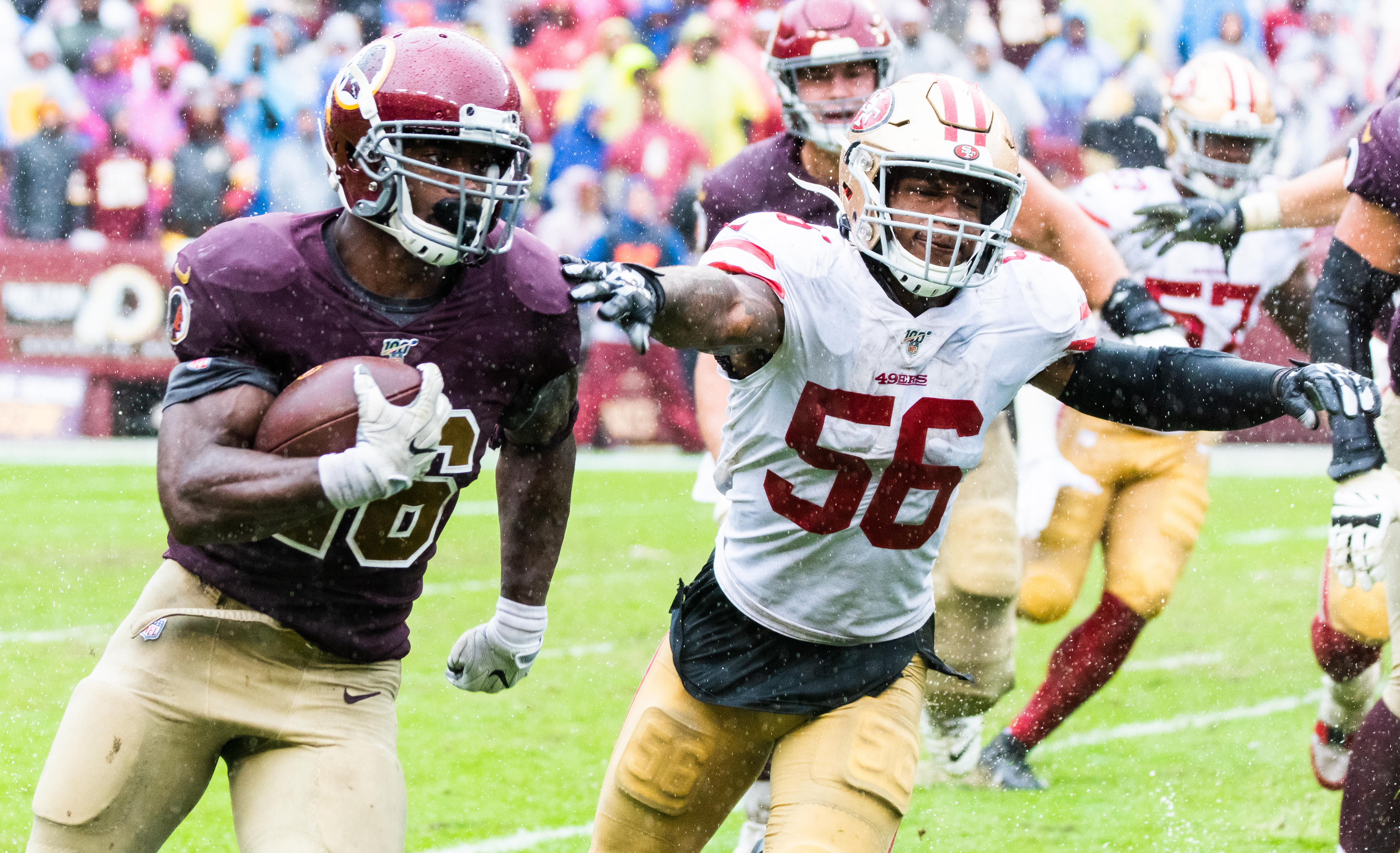 In 2019